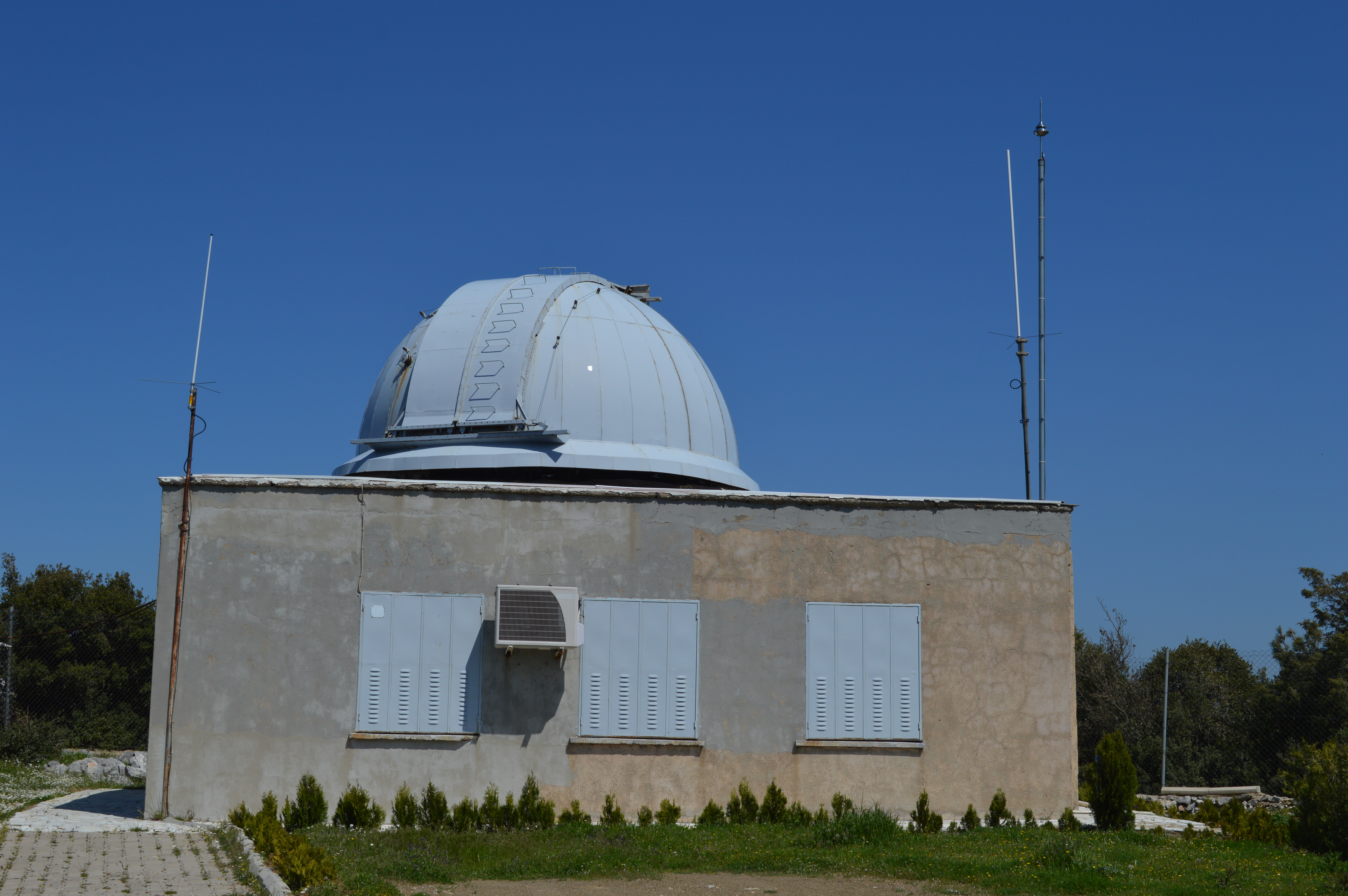 Ege Üniversitesi Gözlemevi A48 Teleskobu Kubbesi